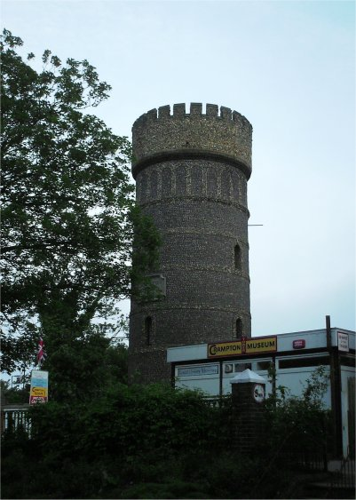 Crampton's water tower, Broadstairs